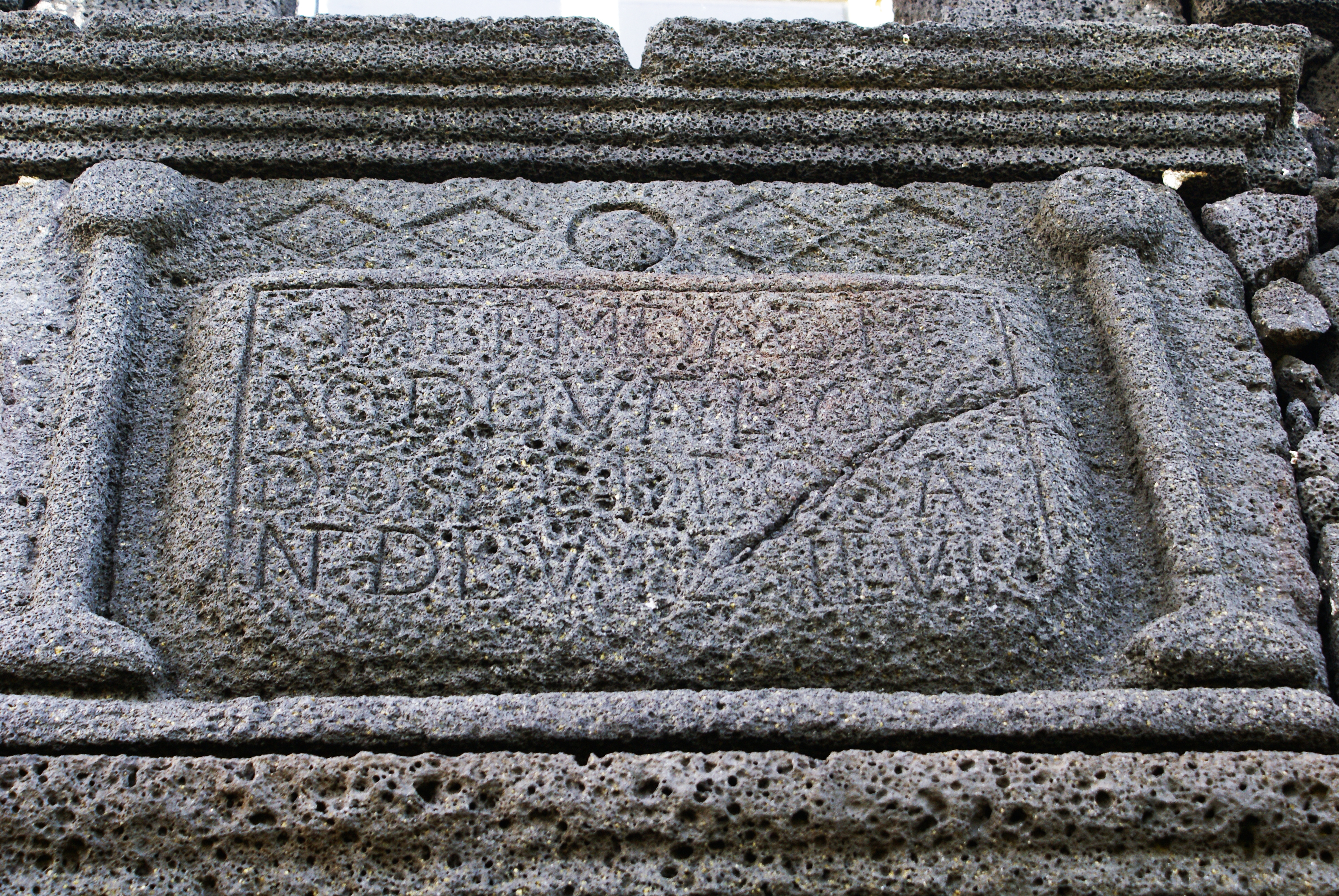 Sculpted volcanic rock on the Chapel of São Mateus, São Roque do Pico, Pico (Azores), Portugal